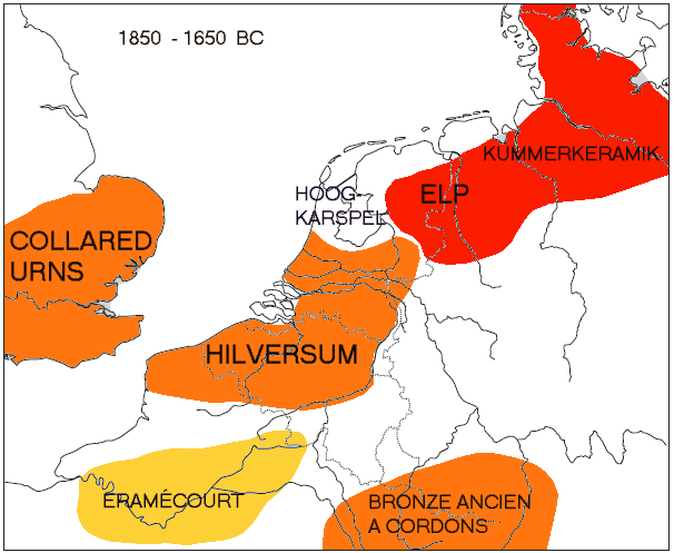 Geographical distribution of earthenware in Middle Bronze Age cultures of NW Europe, within an estimated time frame of 1850 - 1650 BC. (See (in Dutch) Theunissen, L. (1999): Midden-bronstijdsamenlevingen in het zuiden van de Lage Landen: een evaluatie van het begrip 'Hilversum-cultuur', page 210)